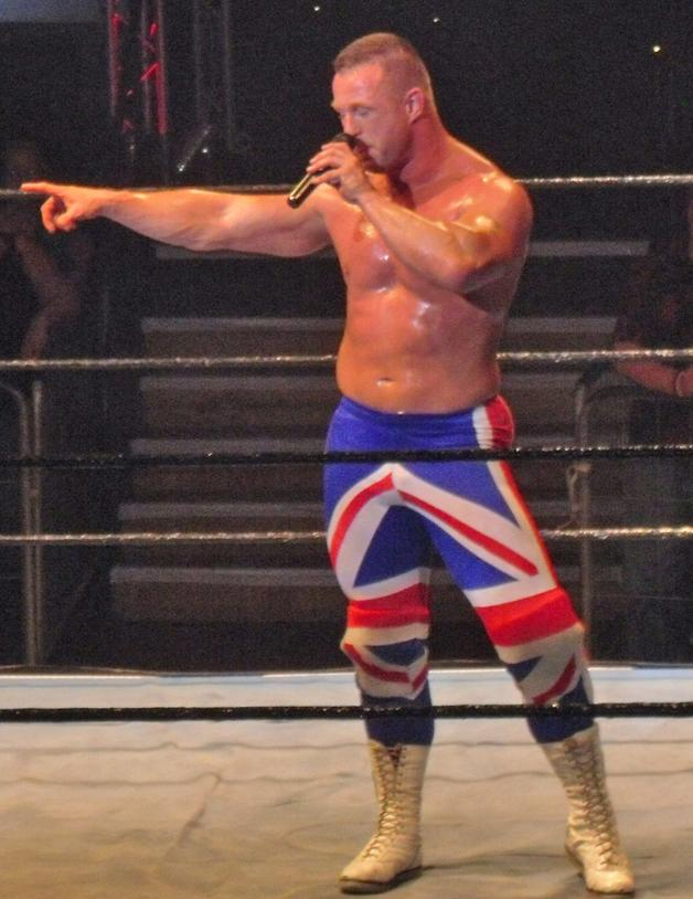 Doug Williams at Frontier Wrestling Alliance's Rebirth.